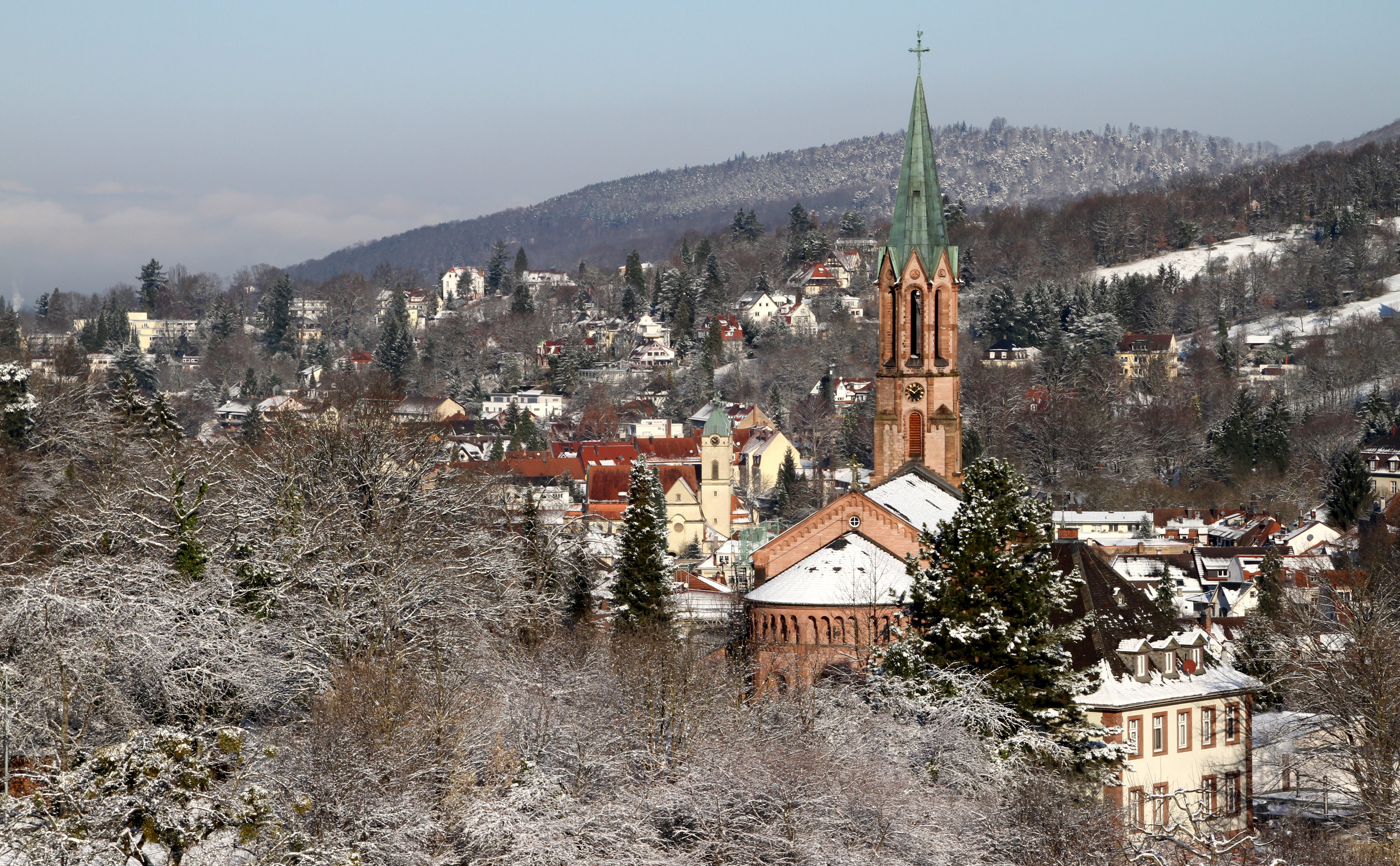 Church of St. Bonifatius at Baden-Baden-Lichtental, Germany. Seen from south. To the left of the Luther Church.